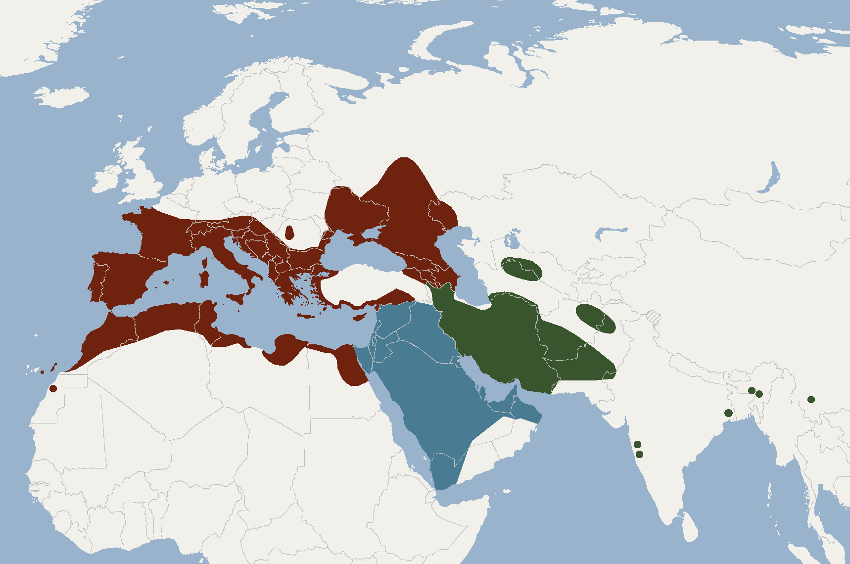 According to IUCN Redlist. Subspecific range: P.k.kuhlii in brown, P.p.ikhwanius in blue, P.k.lepidus in green